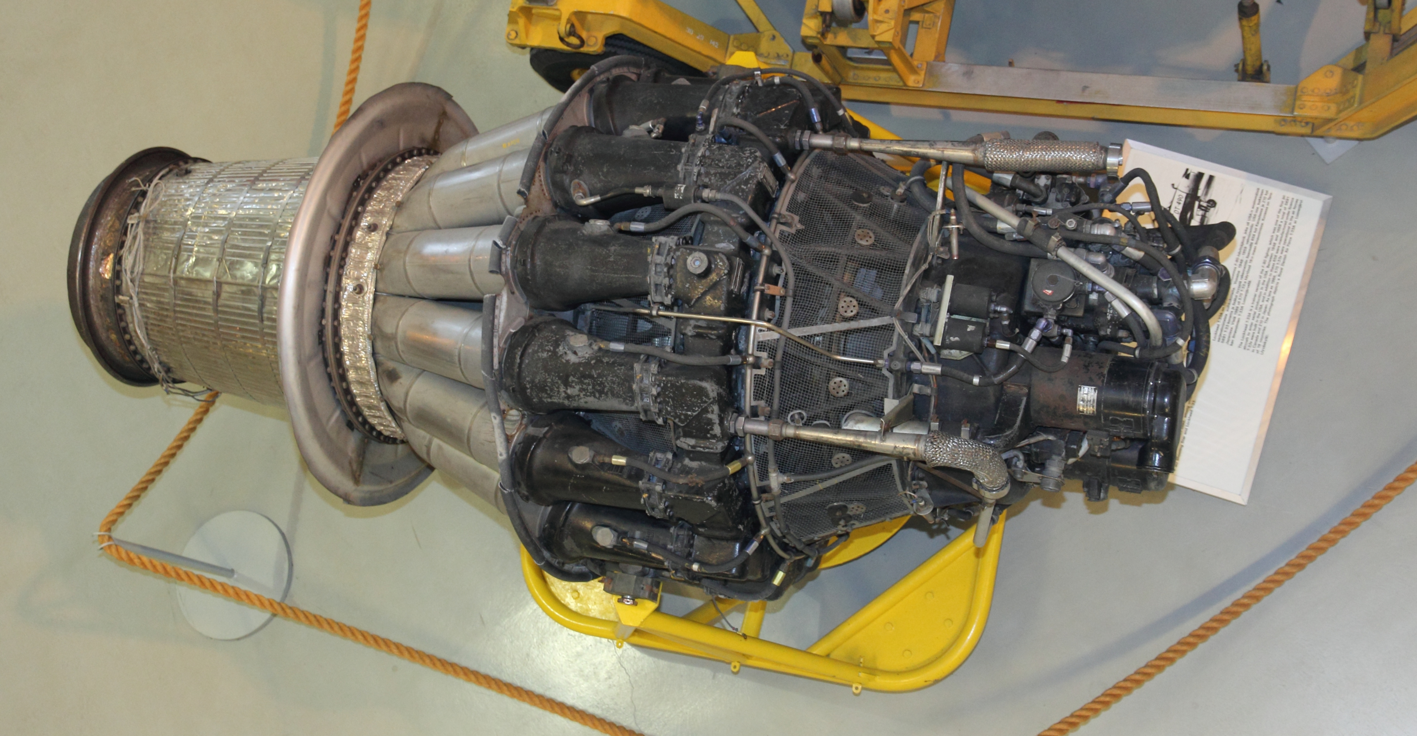 Allison J33-A-35 jet engine serial number 085393 in the Aviation Museum of Central Finland.